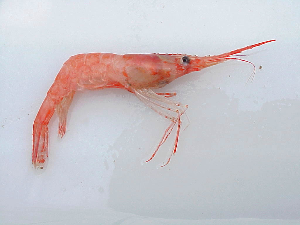 A northern, deep-water or Alaskan pink shrimp (Pandalus borealis).